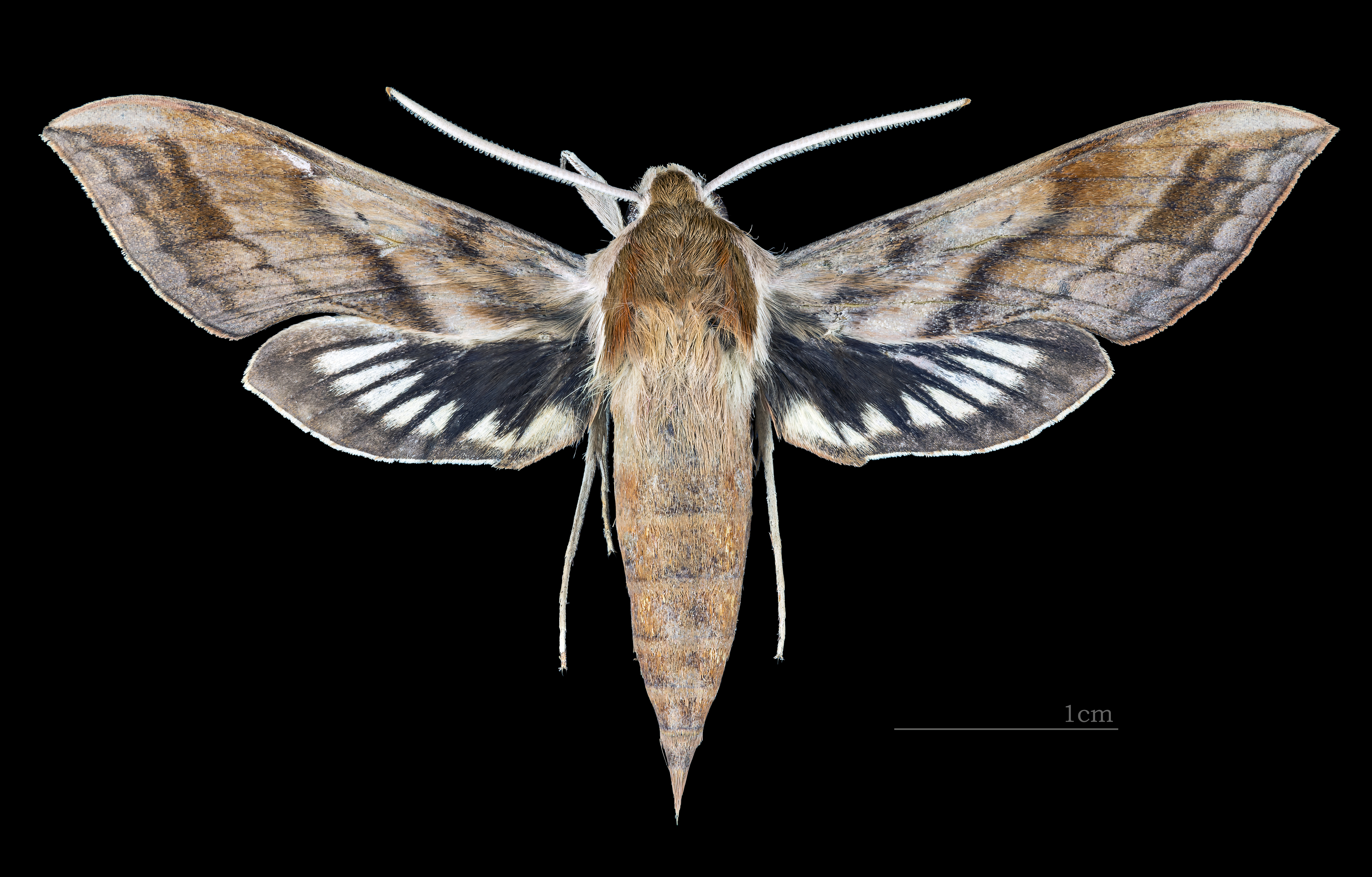 Xylophanes norfolki - Dorsal side Collection of the Mathematician Laurent Schwartz